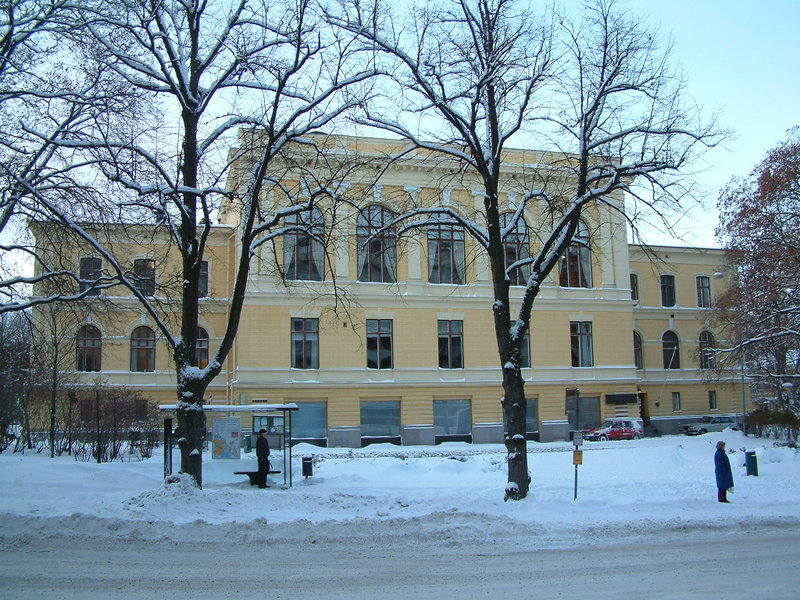 Vaasa Town Hall was designed by Swedish architect Magnus Isæus and it was completed in 1883.